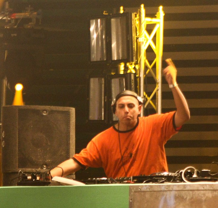 Tatanka live at the Hardstyle Prison at the Syndicate 2010.